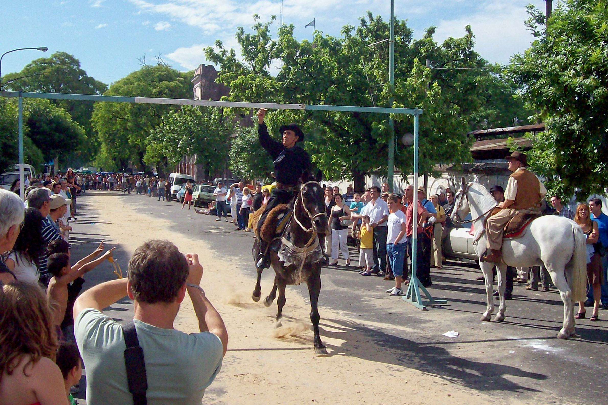 "Corrida de la Sortija" at the "Feria de Mataderos" en el Ex Mercado Nacional de Hacienda, in Buenos Aires city.